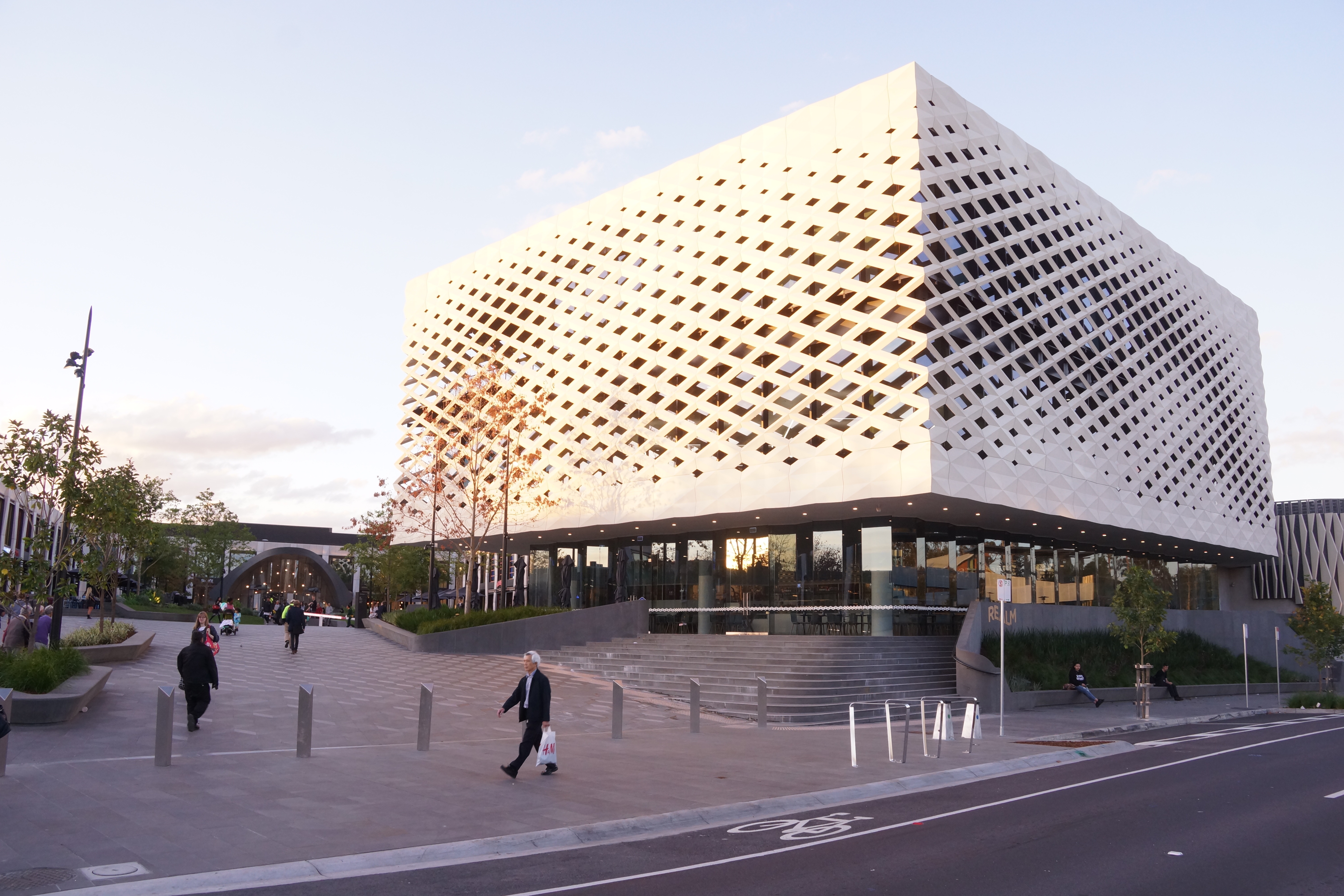 ACME Eastland Melbourne Library designed by ACME for Seventh Wave, Maroondah Council and QIC